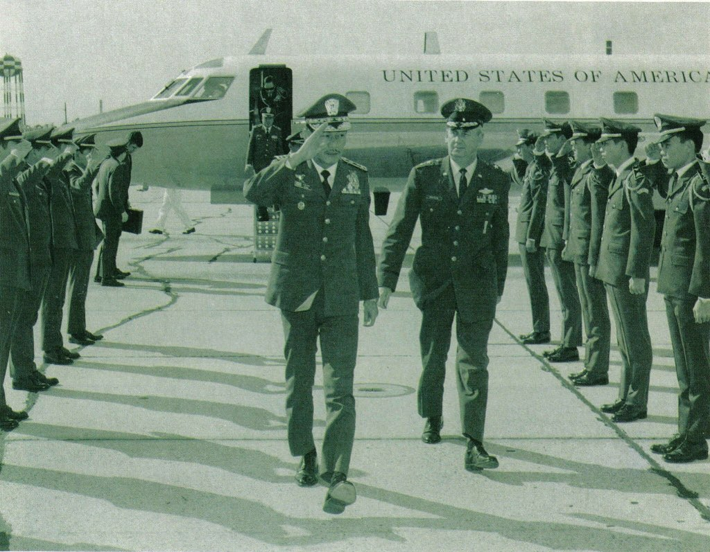 Tran Van Minh VNAF 1974 Major General with Air Force One